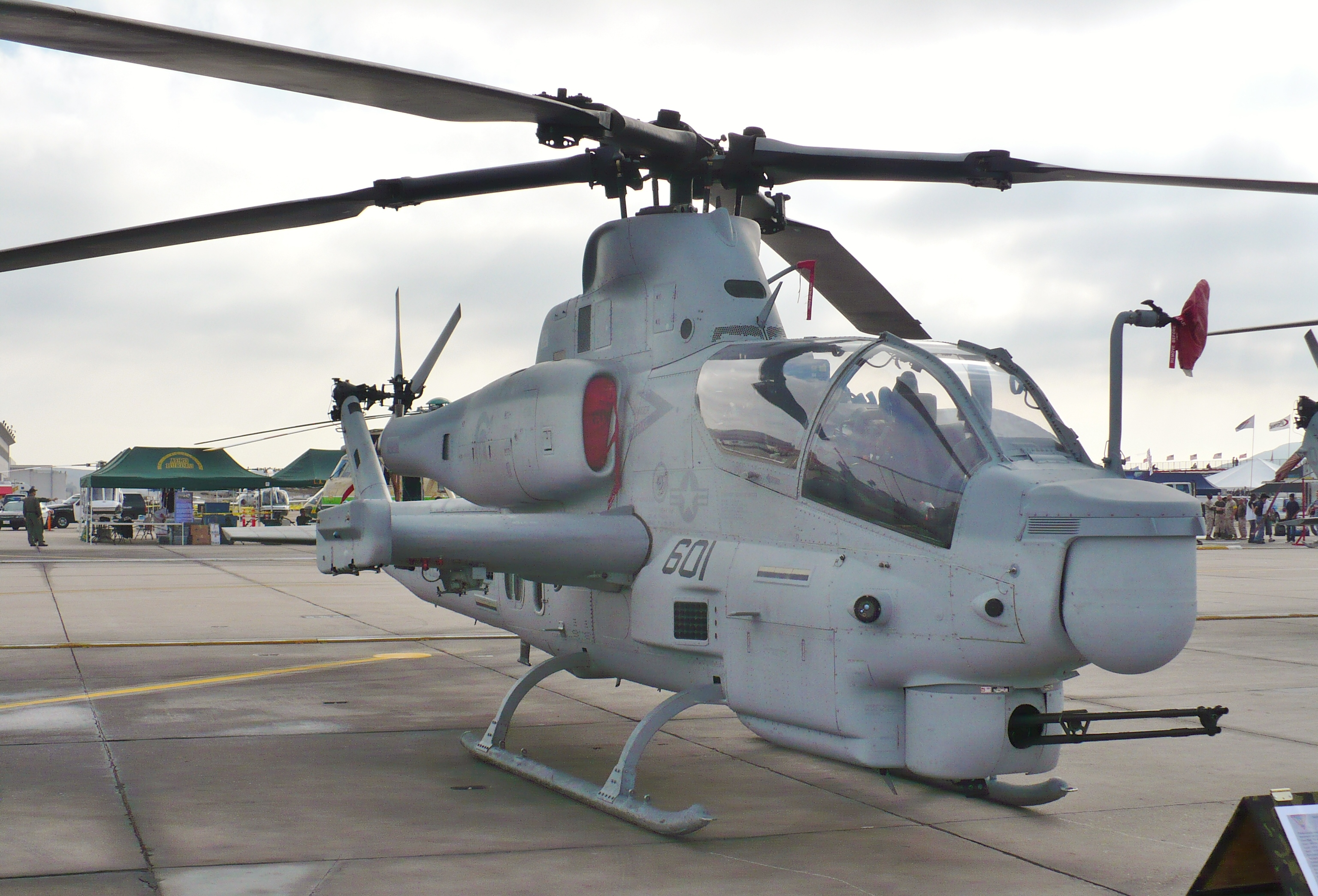 AH-1Z on display at the MCAS Miramar airshow on October 3, 2008